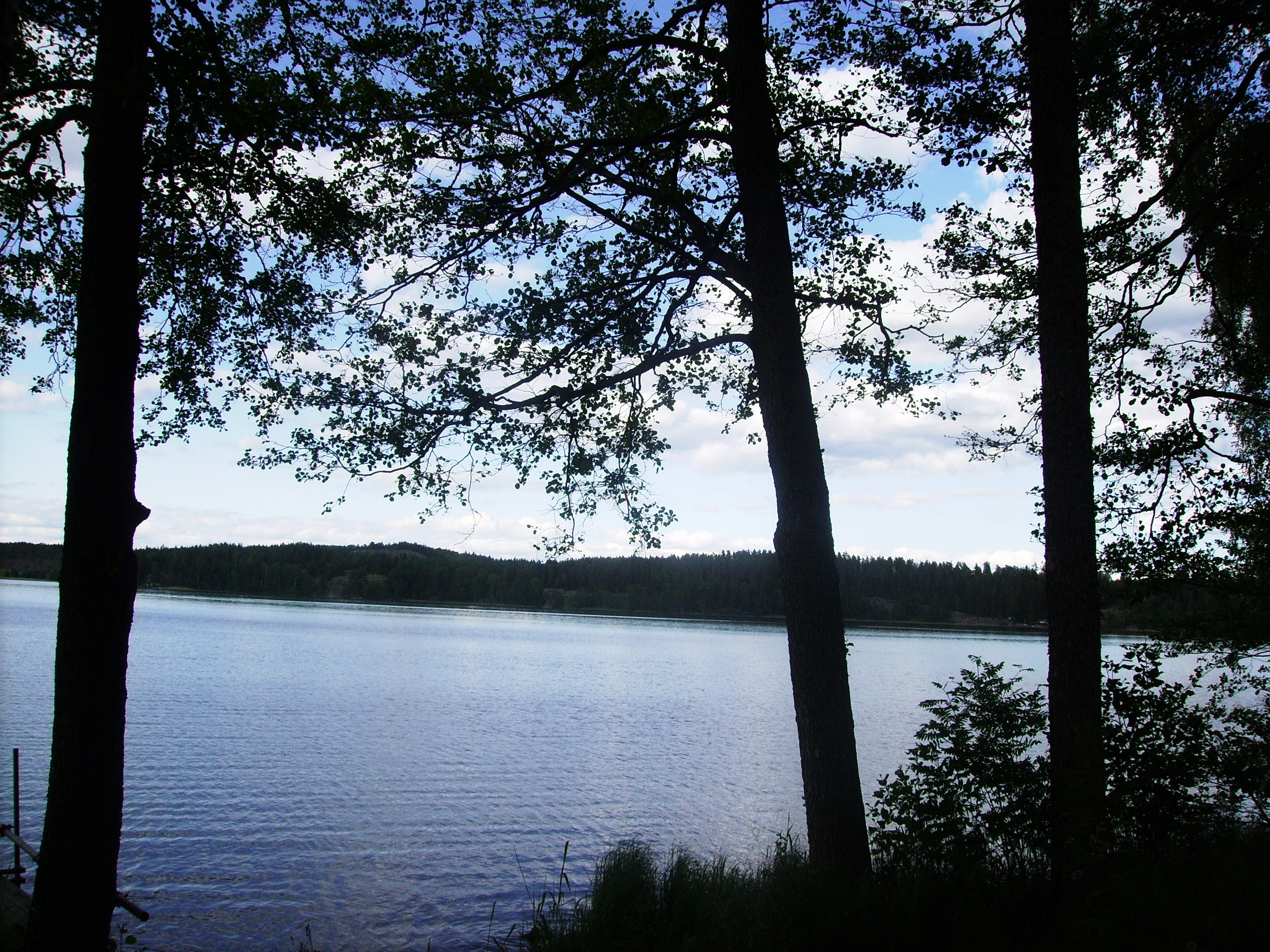 Picture of lake Klämmingen in Södermanland